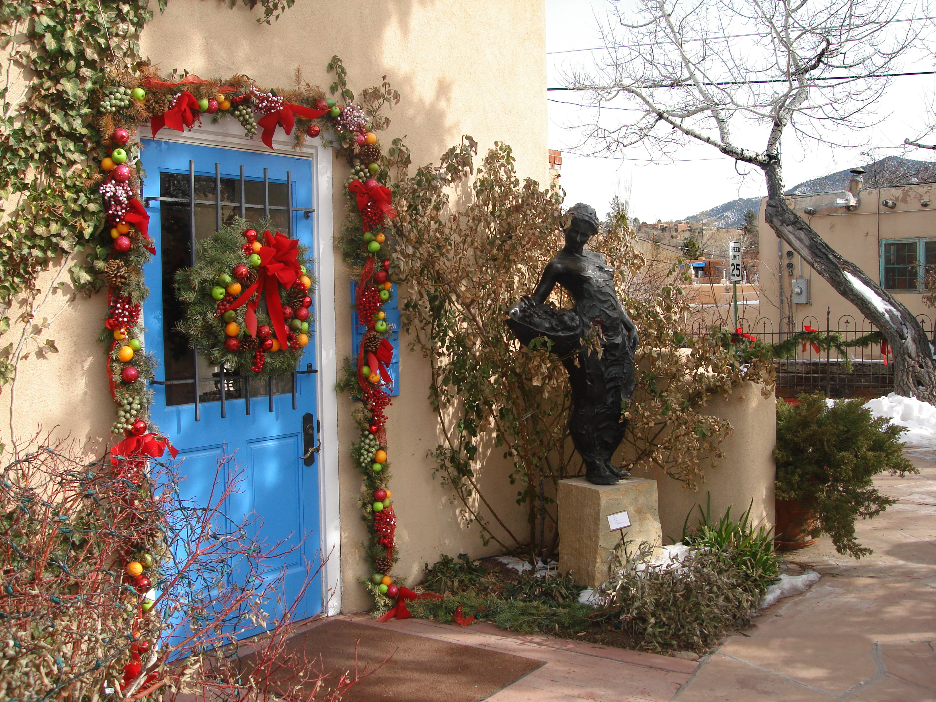 Canyon Road in Santa Fe - New Mexico - USA